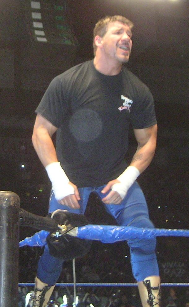 Eddie Guerrero on WWE Wrestle Mania Revenge Tour in Berlin (Germany)